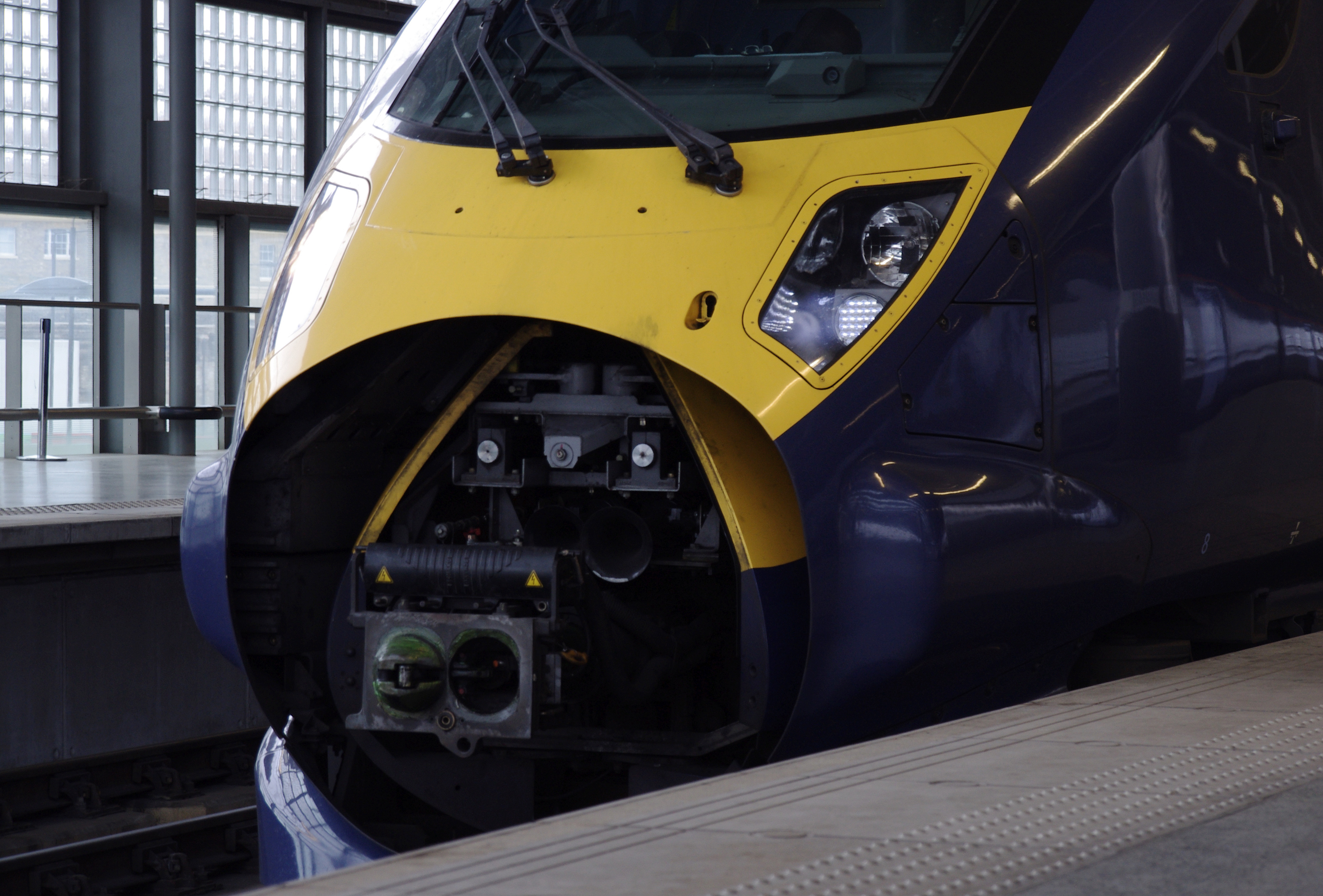 Southeastern Class 395 "Javelin" EMU 395009 stands at London St Pancras railway station. The coupler is out because it had arrived coupled to 395005, which had now left again.